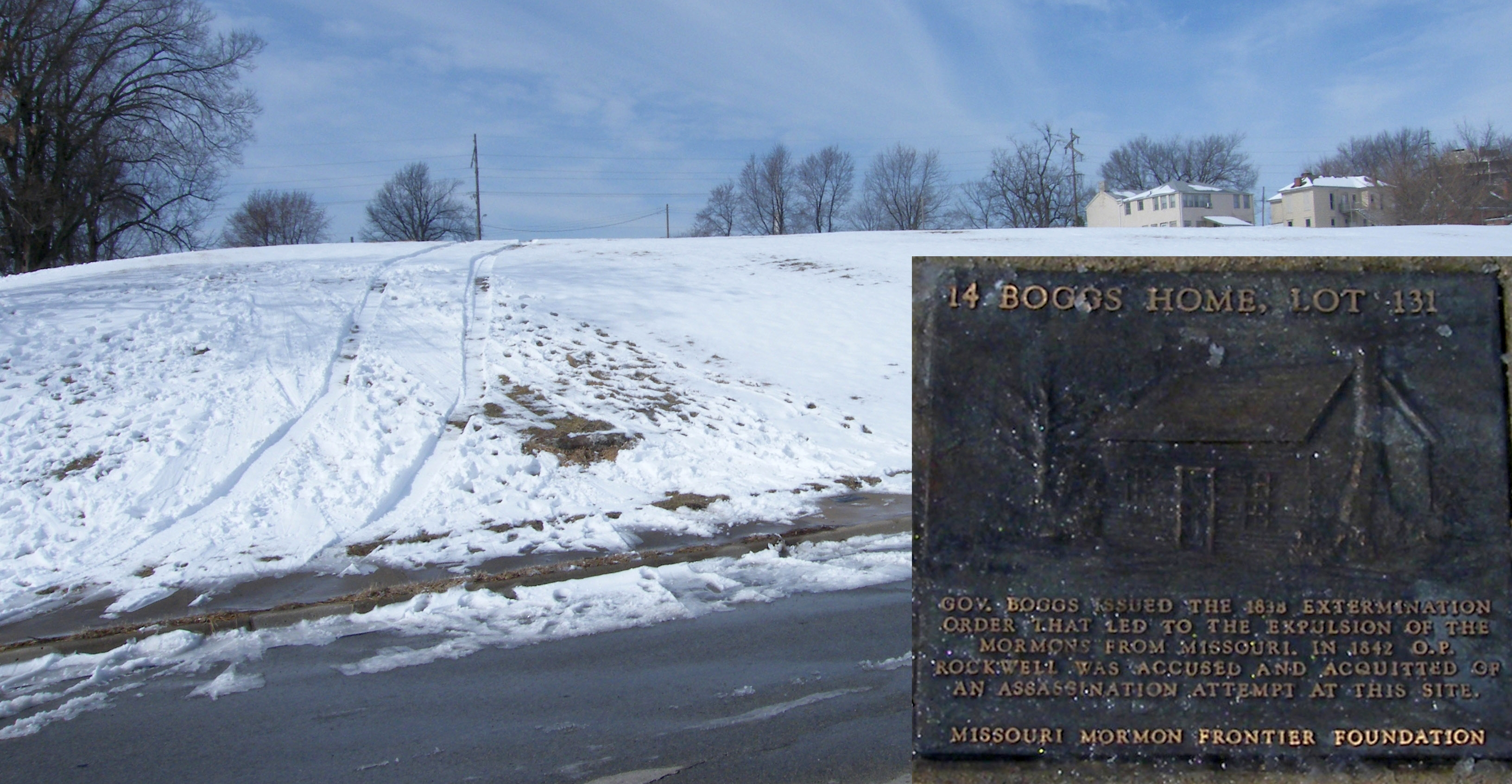 Site of Lilburn Boggs home on the City of Zion plot in Independence, Missouri where Porter Rockwell was accused of shooting him in the head. The steeple of the Independence Temple by Temple Lot is obscured by the trees. A marker on the sidewalk commemorates the event and is part of the Mormon Walking Tour. The marker is in the cleared snow to the left of the blow up. Text of the plaque: 14 BOGGS HOME, LOT 131 GOV. BOGGS ISSUED THE 1838 EXTERMINATION ORDER THAT LED TO THE EXPULSION OF THE MORMONS FROM MISSOURI. IN 1842 O.P. ROCKWELL WAS ACCUSED AND ACQUITTED OF AN ASSASSINATION ATTEMPT AT THIS SITE. MISSOURI MORMON FRONTIER FOUNDATION